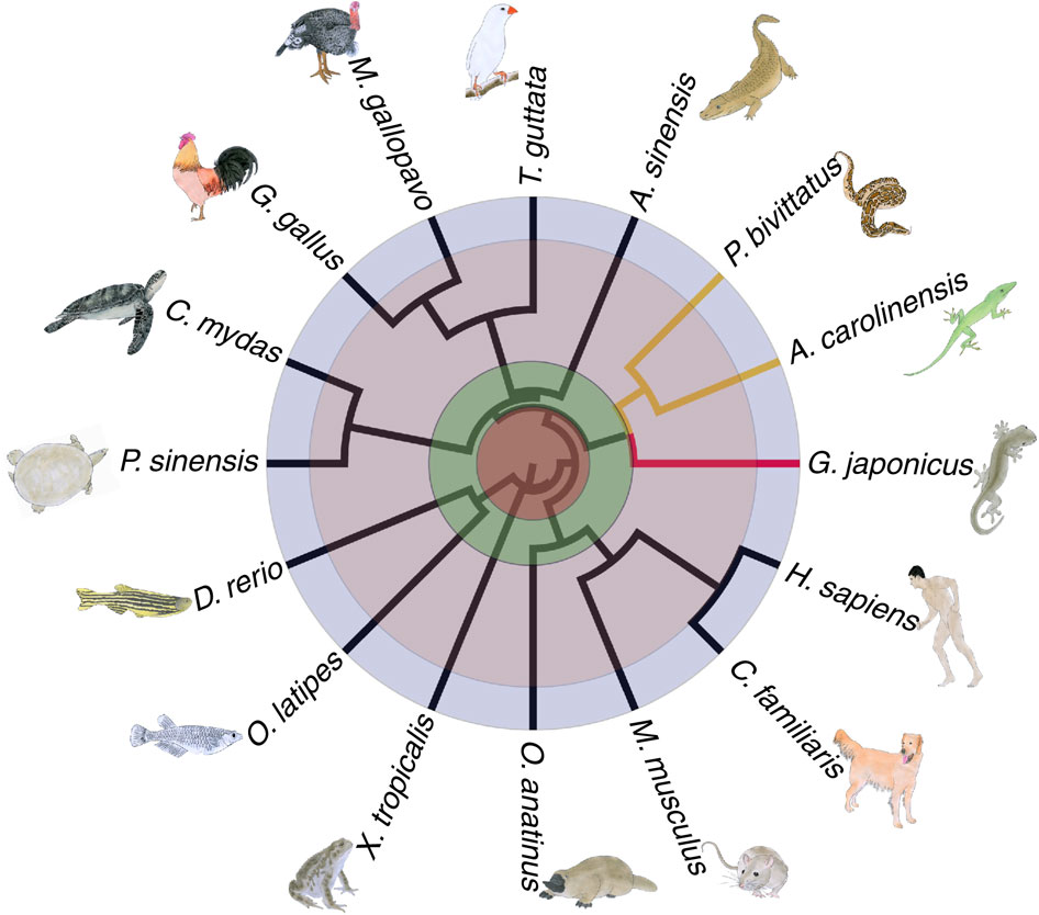 Phylogenetic analysis of the whole-genomes of 6 reptilian species and 10 additional vertebrate species. The species in the phylogenetic tree include Danio rerio (D. rerio), Xenopus tropicalis (X. tropicalis), Chelonia mydas (C. mydas), Pelodiscus sinensis (P. sinensis), Alligator sinensis (A. sinensis), Python molurus bivittatus (P. bivittatus), Anolis carolinensis (A. carolinensis), Gekko japonicus (G. japonicus), Taeniopygia guttata (T. guttata), Gallus gallus (G. gallus), Ornithorhynchus anatinus (O. anatinus), Canis familiaris (C. familiaris), Mus musculus (M. musculus), Homo sapiens (H. sapiens), Oryzias latipes (O. latipes) and Meleagris gallopavo (M. gallopavo). Before the Permian period is represented in brown. The Permian period to the Triassic period is represented in green. The Triassic period to the Paleogene period is represented in purple. The Paleogene period to the present is represented in blue.